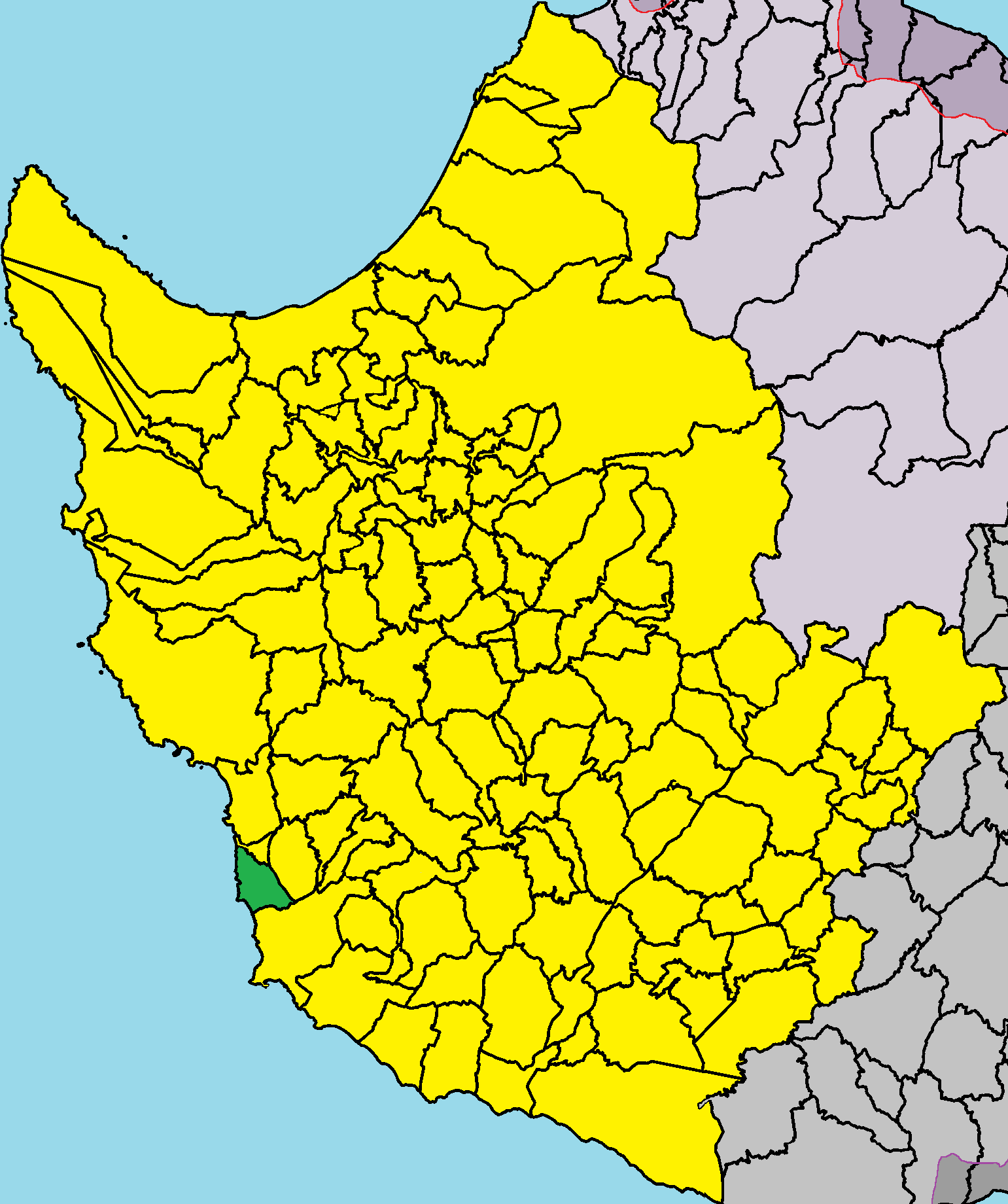 Chloraka in Paphos District.